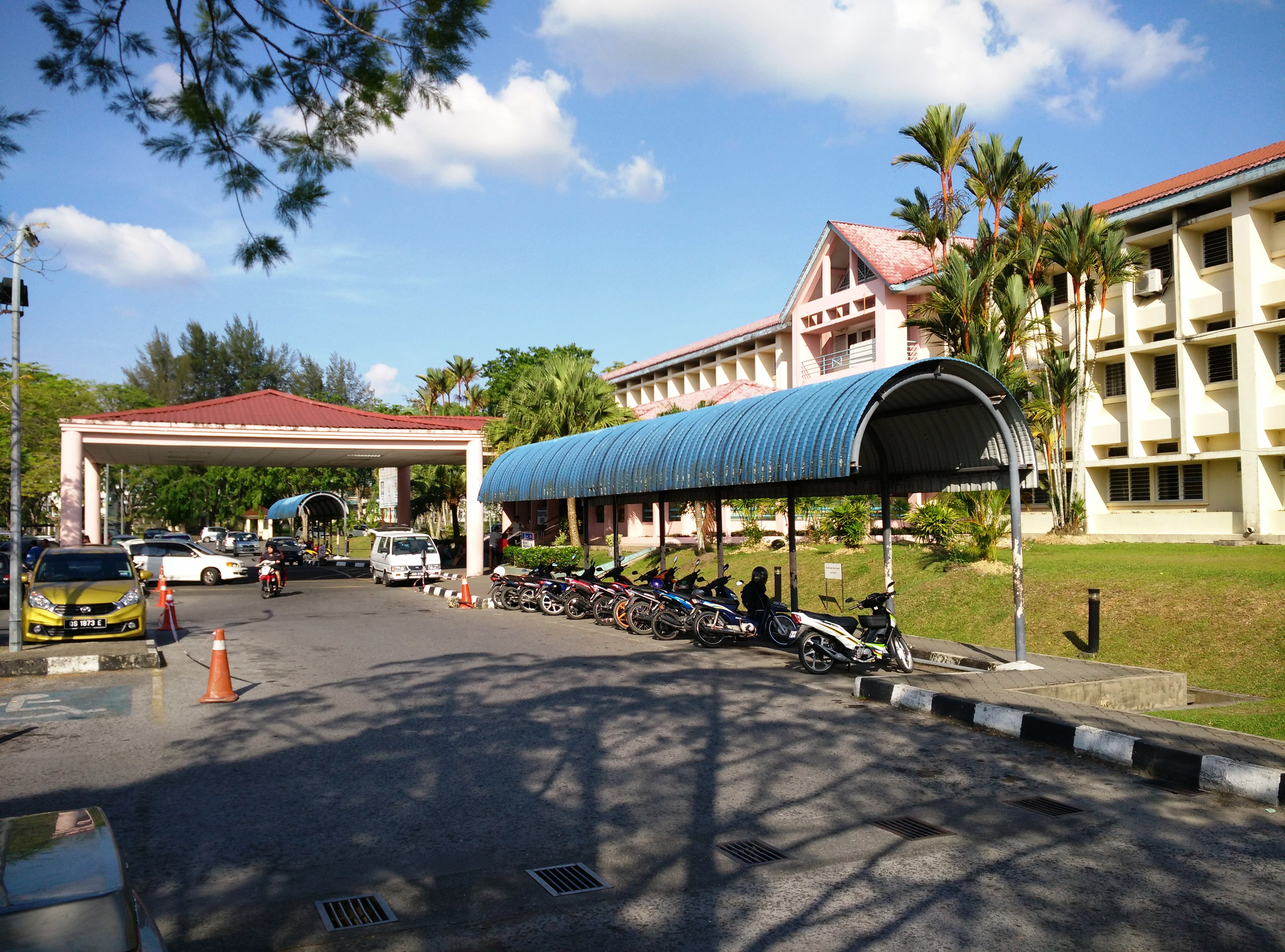 Side view of Sibu Hospital main building.